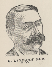 Former United States Representative from New York George H. Lindsay.